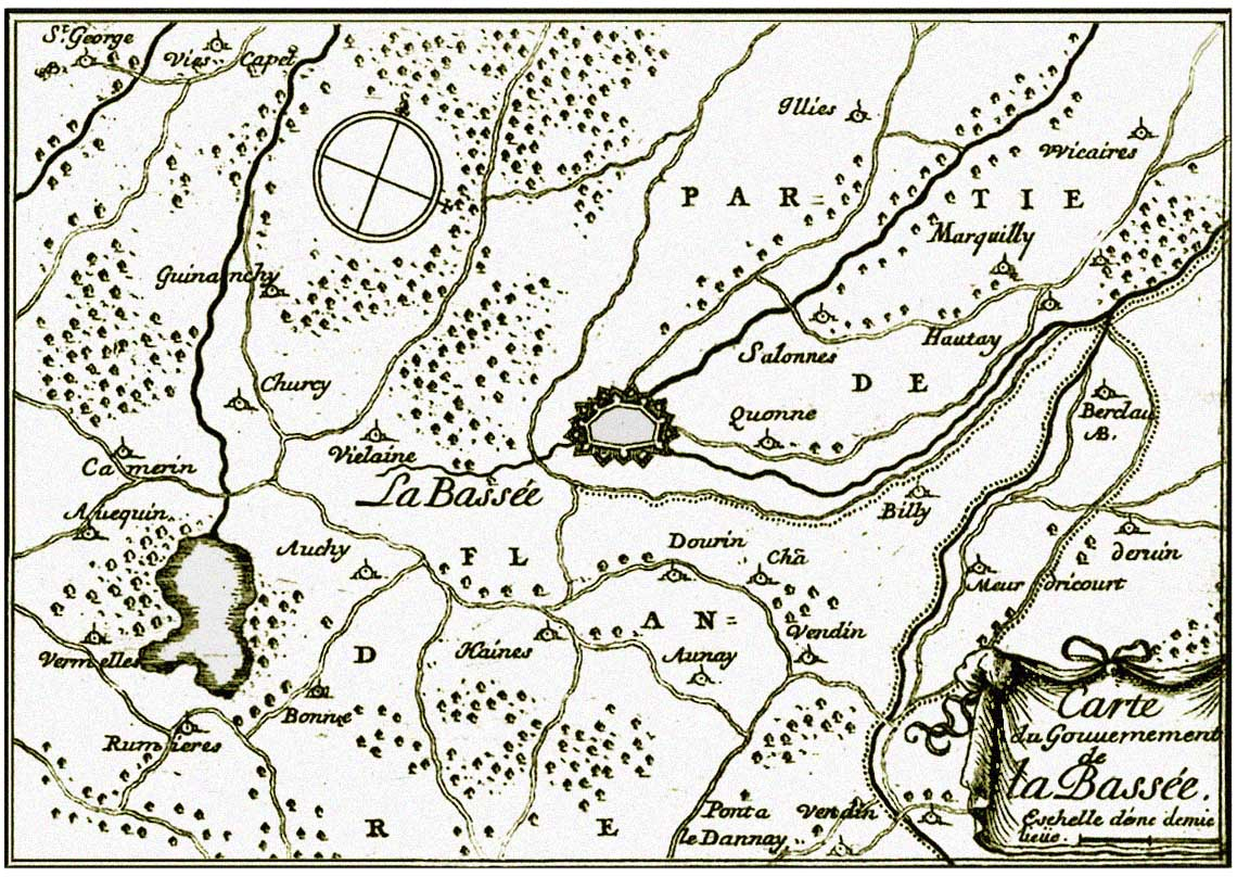 Old map of la bassée, north of France, with wetlands